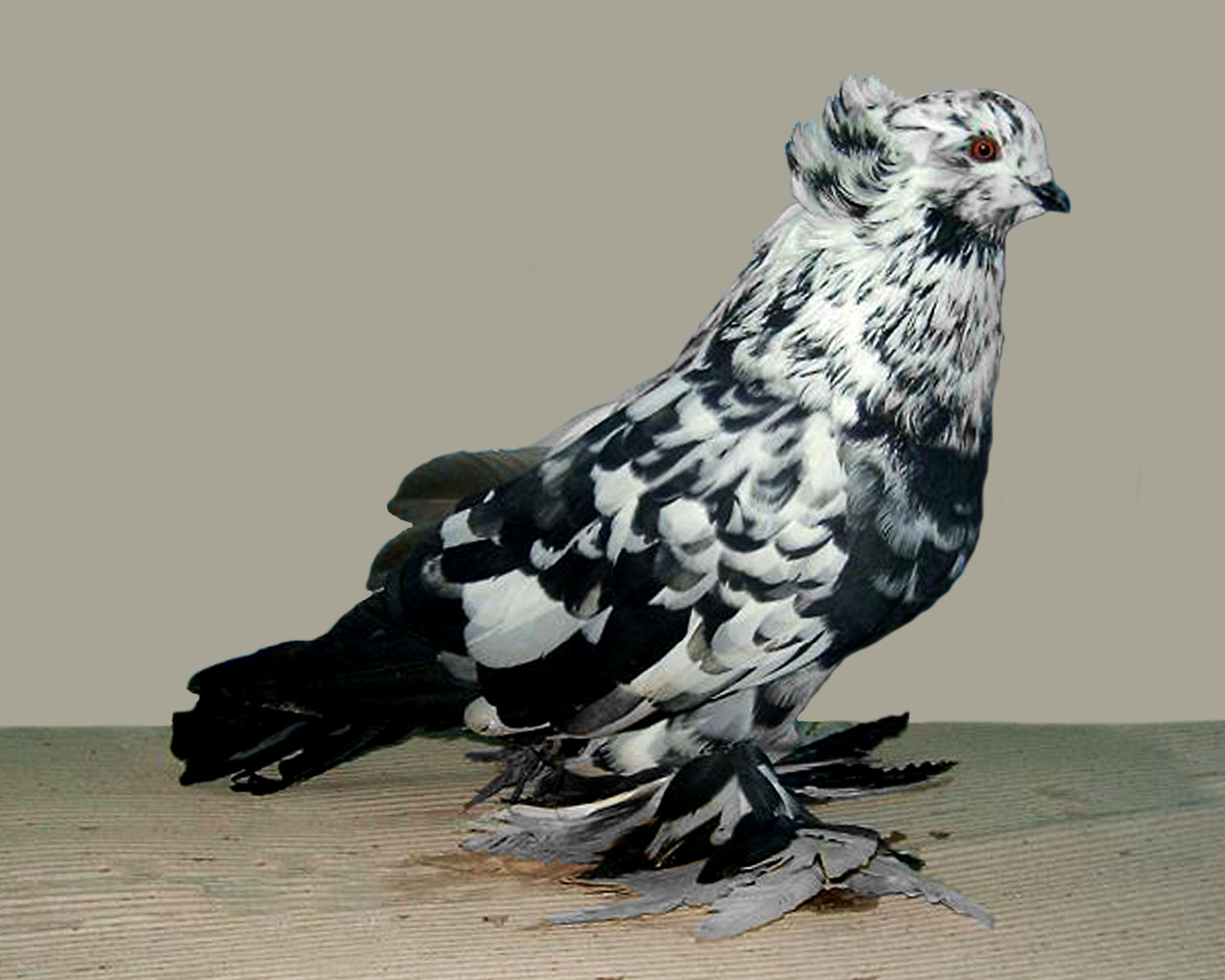 Hungarian Giant House Pigeon (Black Splash)